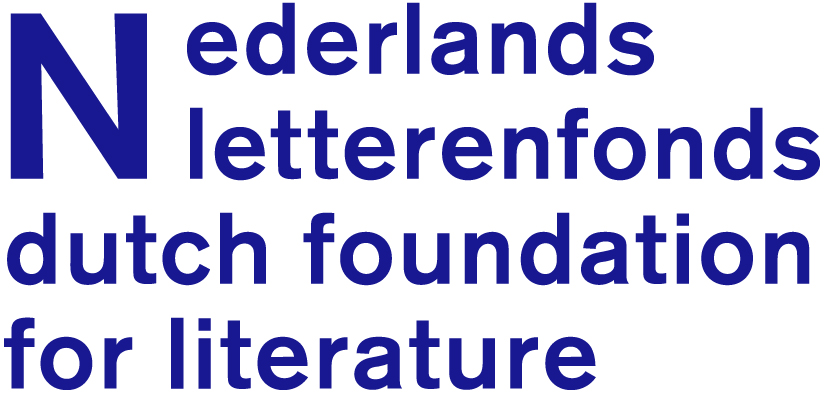 Logo Nederlands Letterenfonds (Dutch Foundation for Literature)